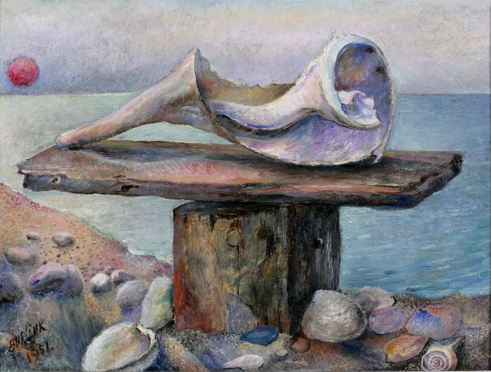 Shells, oil on canvas, David Burlick, 1951 The Long Island Museum Collection.